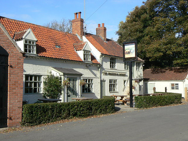 Waggon and Horses, Bleasby I was hoping for a refreshing lunchtime drink, but at half-past one there was no sign of life, so I had to make do with the water in my bag.